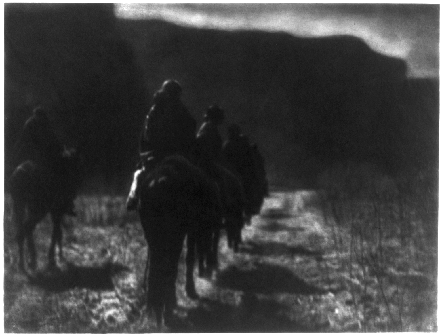 Text from Image from and converted to PNG format. TITLE: The vanishing race--Navaho CALL NUMBER: Illus. in E77 .C97a [Rare Book RR] REPRODUCTION NUMBER: LC-USZ62-37340 (b&w film copy neg.) RIGHTS INFORMATION: No known restrictions on publication. SUMMARY: Photograph shows Navajos on horseback riding away from photographer. MEDIUM: 1 photomechanical print : photogravure. CREATED/PUBLISHED: c1904. CREATOR: Curtis, Edward S., 1868-1952, photographer. NOTES: Original photogravure produced in Boston by John Andrew & Son, c1904. Curtis no. 984. Title from item. Also available as a platinum photographic print (Prints & Photographs Division call number: PH - Curtis (E), no. 1). DLC Published in: The North American Indian / Edward S. Curtis. [Seattle, Wash.] : Edward S. Curtis, 1907-30, Suppl. v. 1, pl. 1. SUBJECTS: Indians of North America--1900-1910. Navajo Indians--1900-1910. FORMAT: Book illustrations 1900-1910. Photogravures 1900-1910. REPOSITORY: Library of Congress Rare Book & Special Collections Division Washington, D.C. 20540 USA DIGITAL ID: (b&w film copy neg.) cph 3a37704 CONTROL #: 2004672872 Above text from